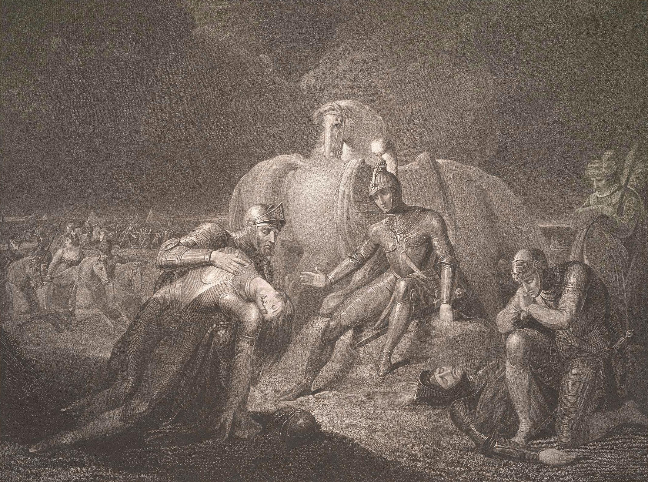 Henry VI, Act 2, Scene 5: Henry sees a father's grieving over the killing of his son, and a son's grieving over the killing of his father during the Battle of Towton, 1461. This engraving of a painting was published on 4 June 1794 by John & Josiah Boydell, Shakspeare Gallery Pall Mall, & No. 90, Cheapside.